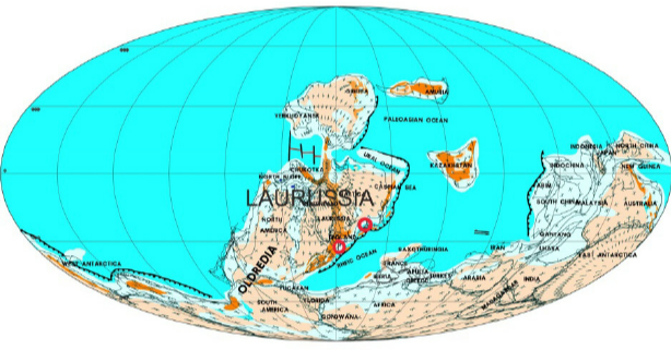 Approximate coastline of Earth around early Devonian period